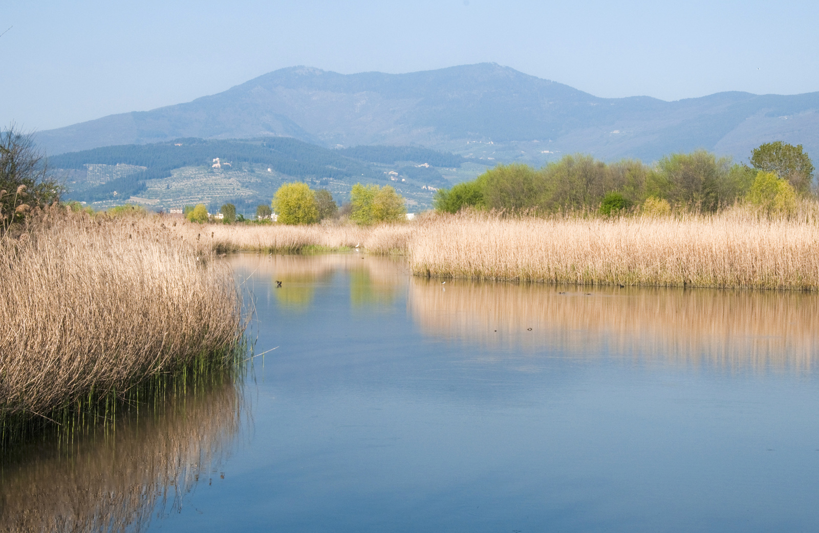 This is a photo of a monument which is part of cultural heritage of Italy. The authorisation for taking photos of this object was provided by the World Wide Fund for Nature Italy.